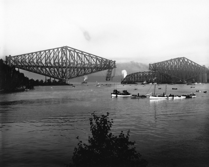 Photograph, Placing of centre span, Quebec Bridge, Quebec City, QC, 1916, Wm. Notman & Son, Silver salts on glass - Gelatin dry plate process - 20 x 25 cm